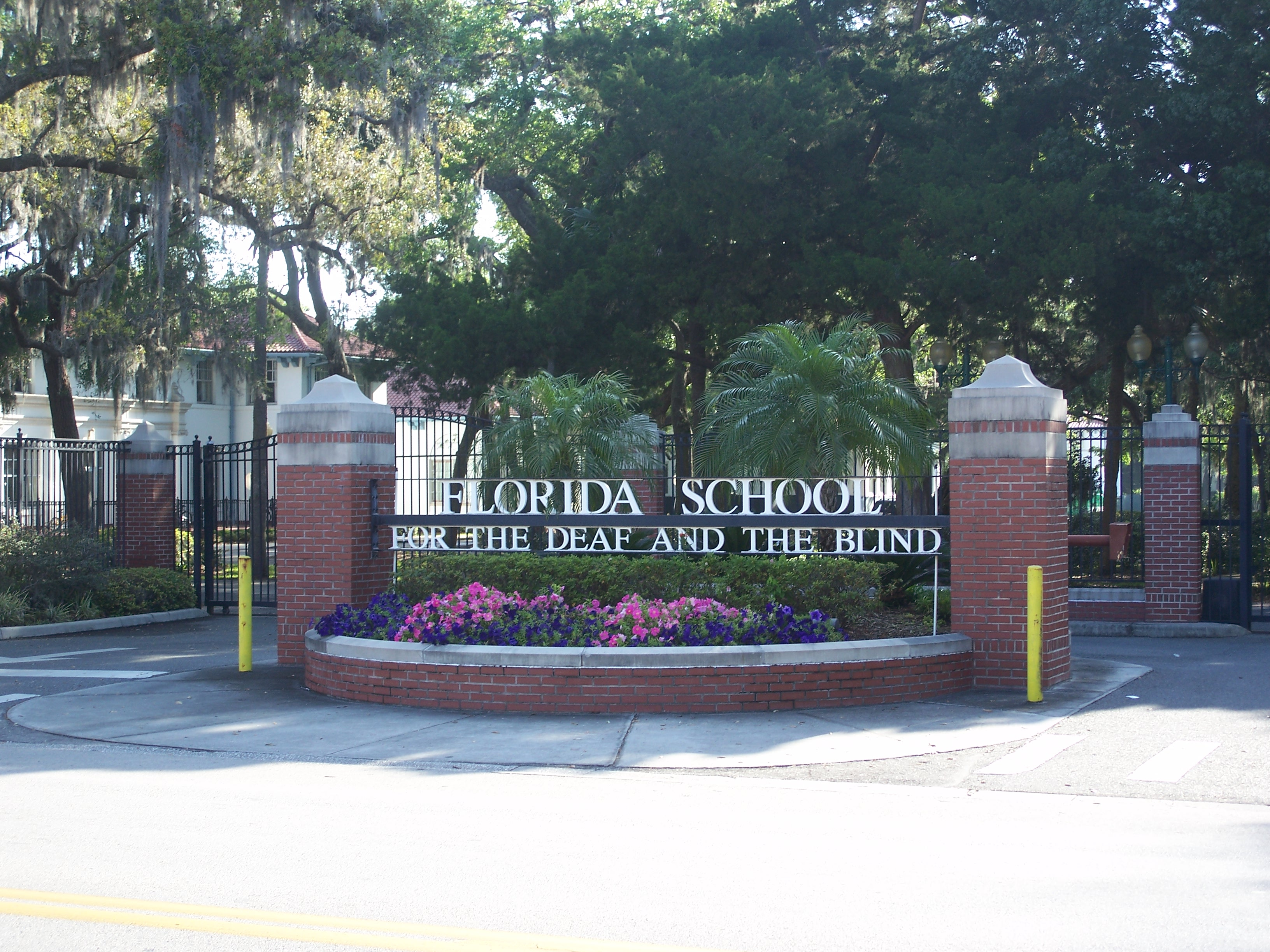 St. Augustine, Florida: Entrance to the Florida School for the Deaf and Blind.